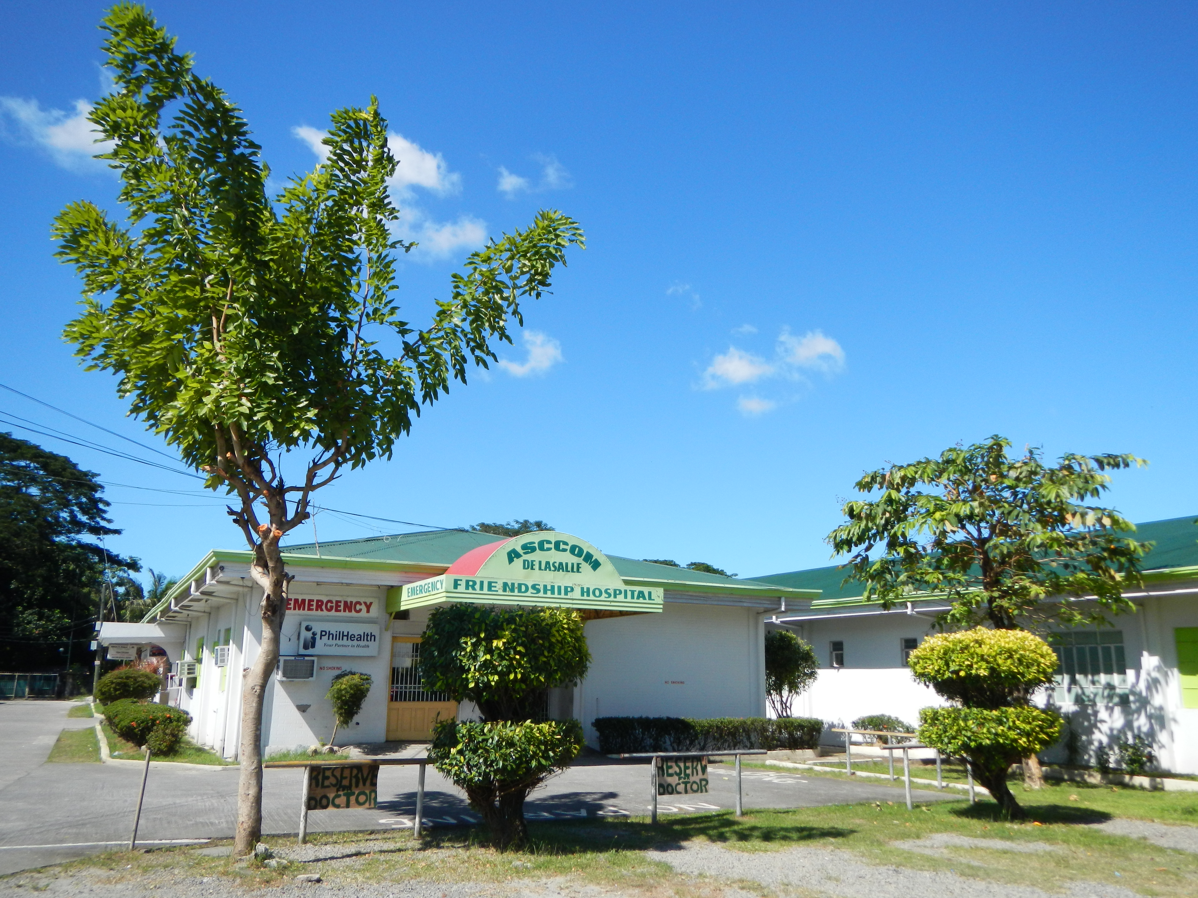 Apalit, Pampanga[1] ASSCOM De La Salle Friendship Hospital